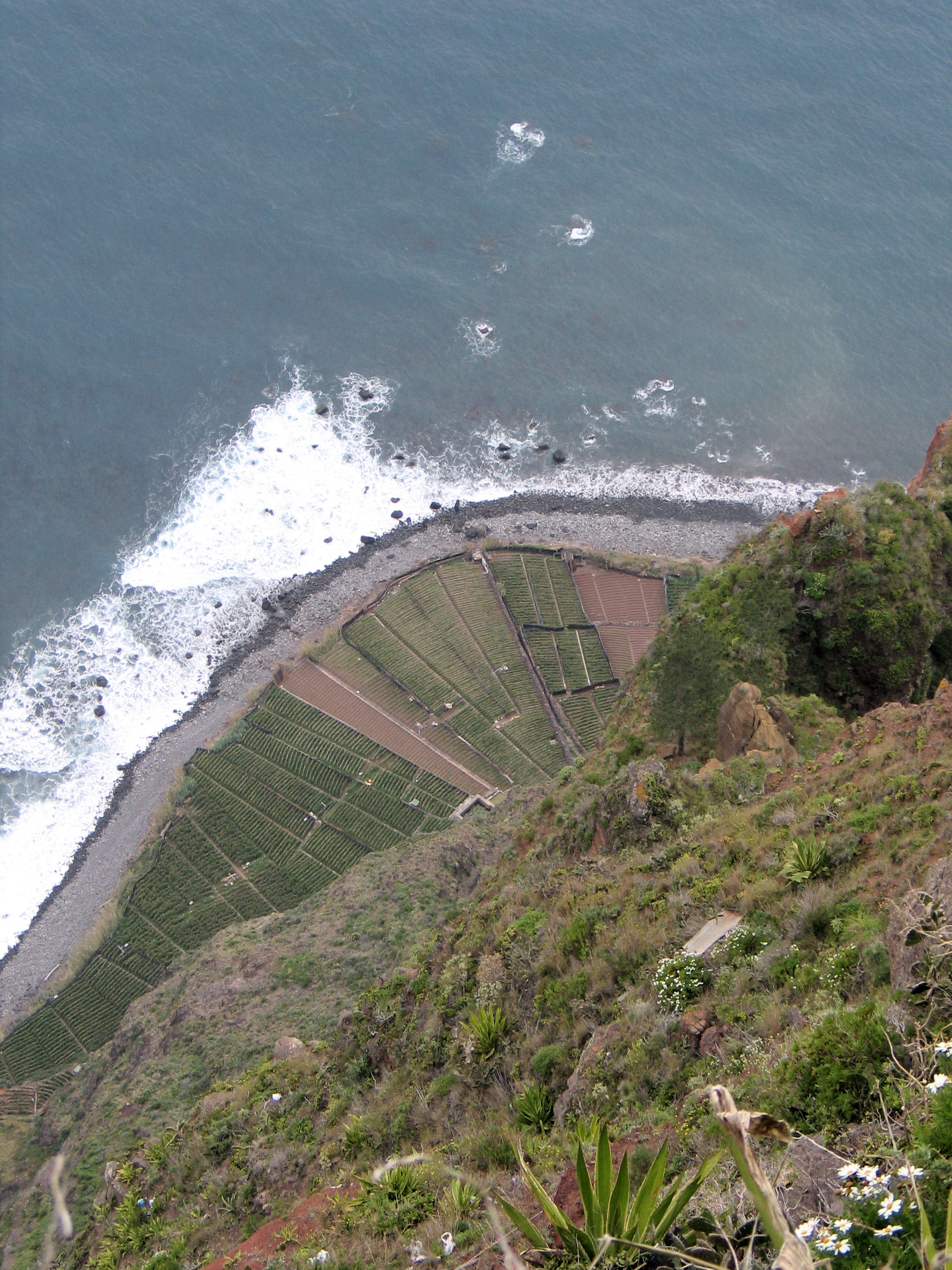 Looking dwon to the sea from atop Cabo Girão, Madeira Island, Portugal